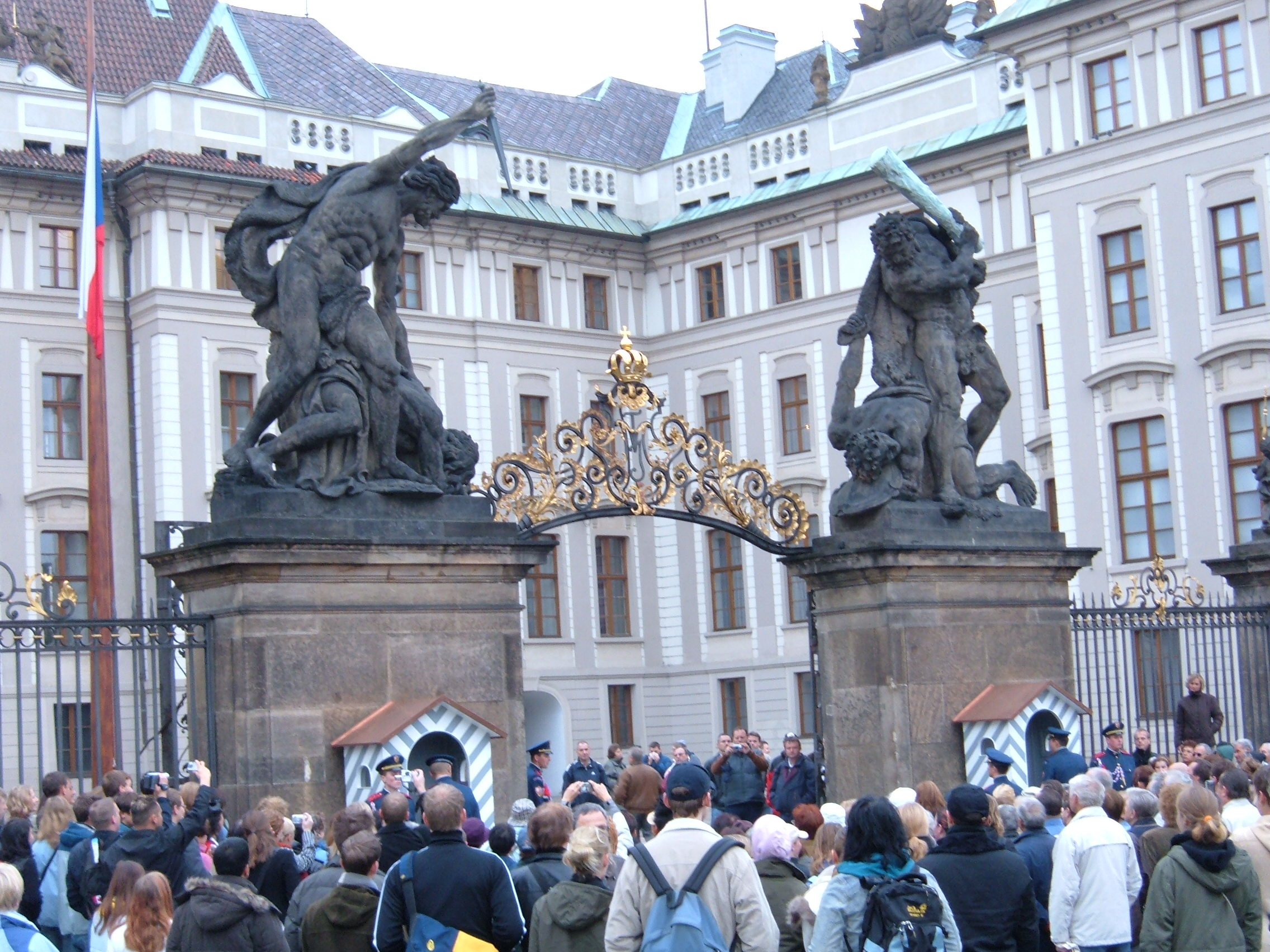 The first courtyard of Prague Castle in Prague, Czech Republic.